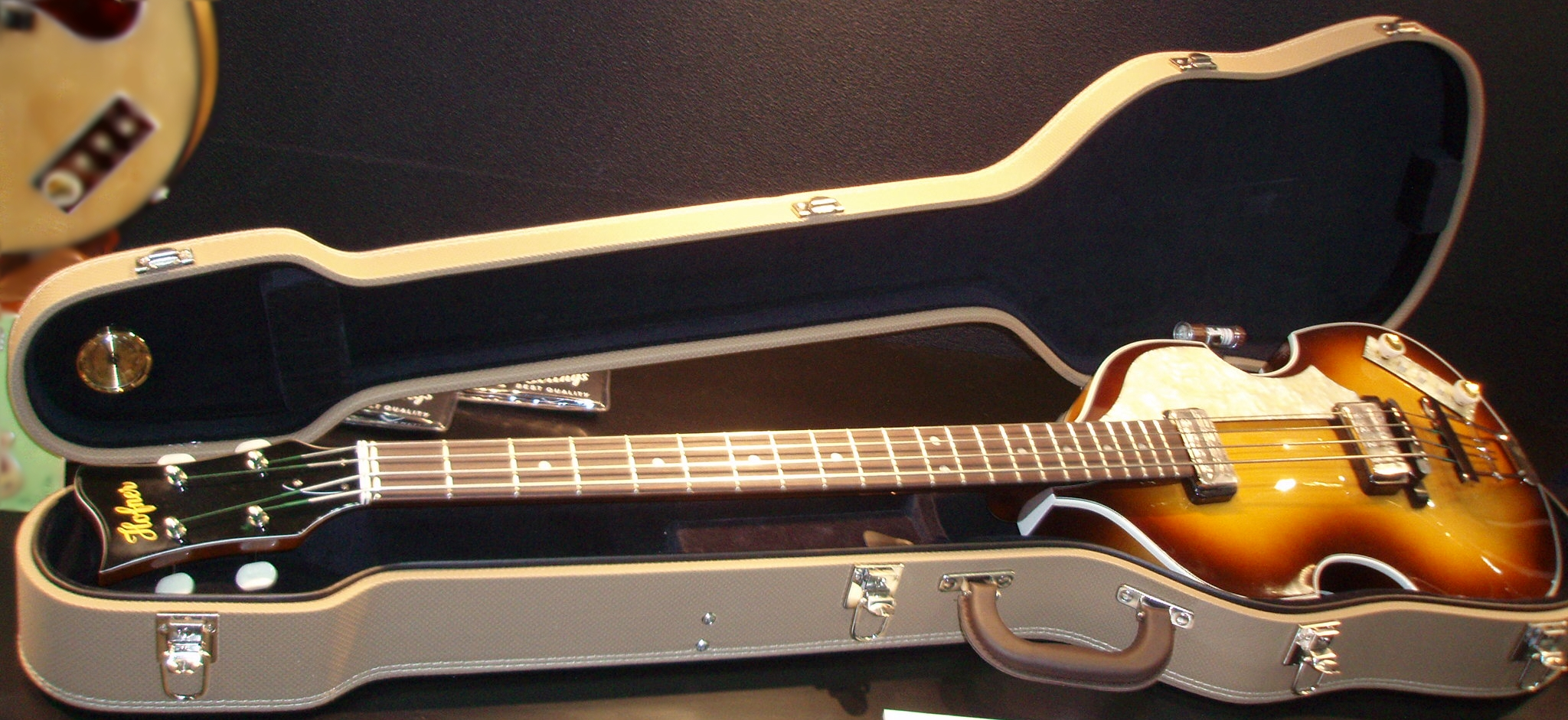 Höfner 500/1 Vintage '62 World History RH Alias Violin Bass An ultimate specification to which the Höfner logo, pickup, and the jack position are changed is finally achieved in the vintage brown sunburst. Certificate and with Höfner Co. signature. In the case of deluxe hard.